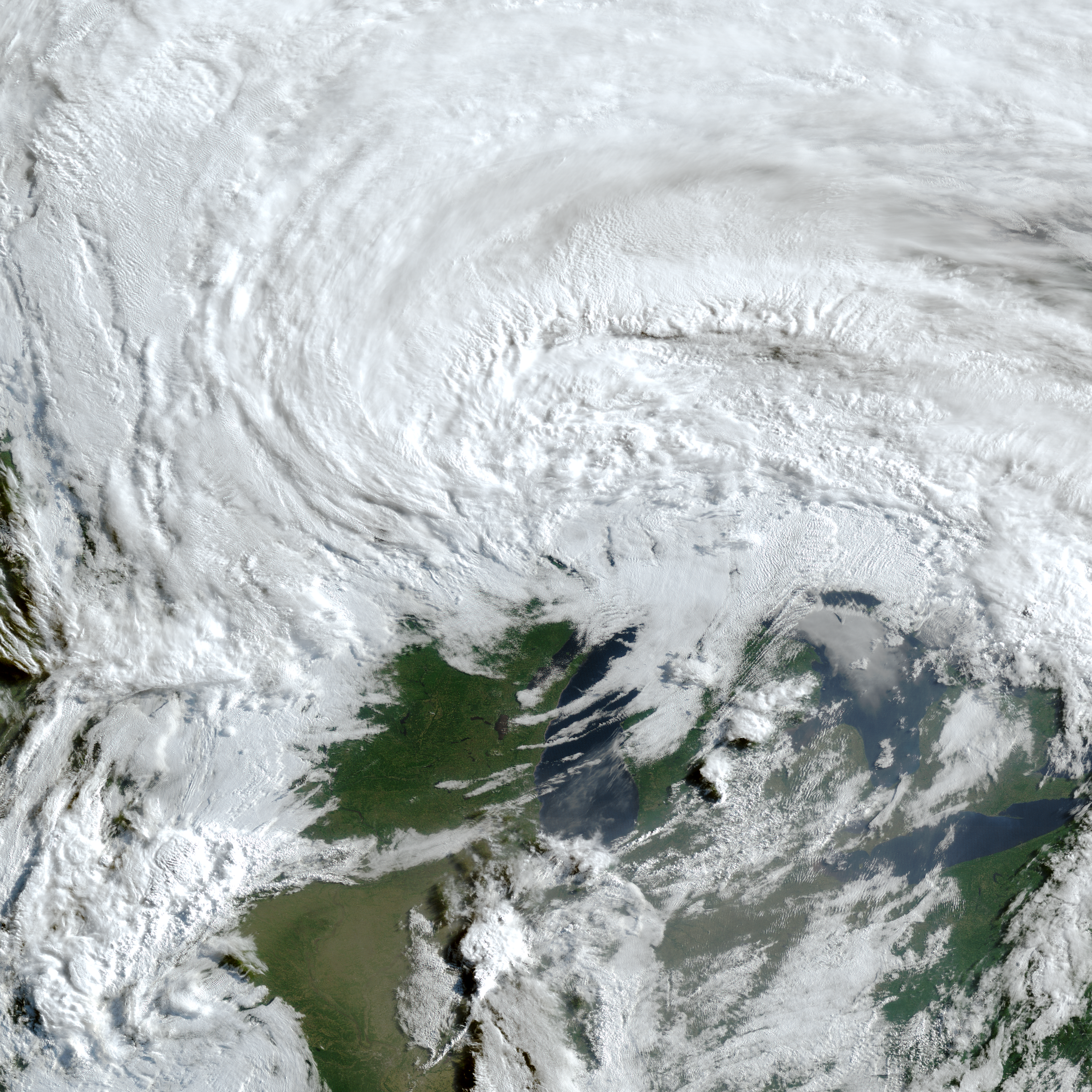 Extra-tropical Low Cristobal on June 10, 2020